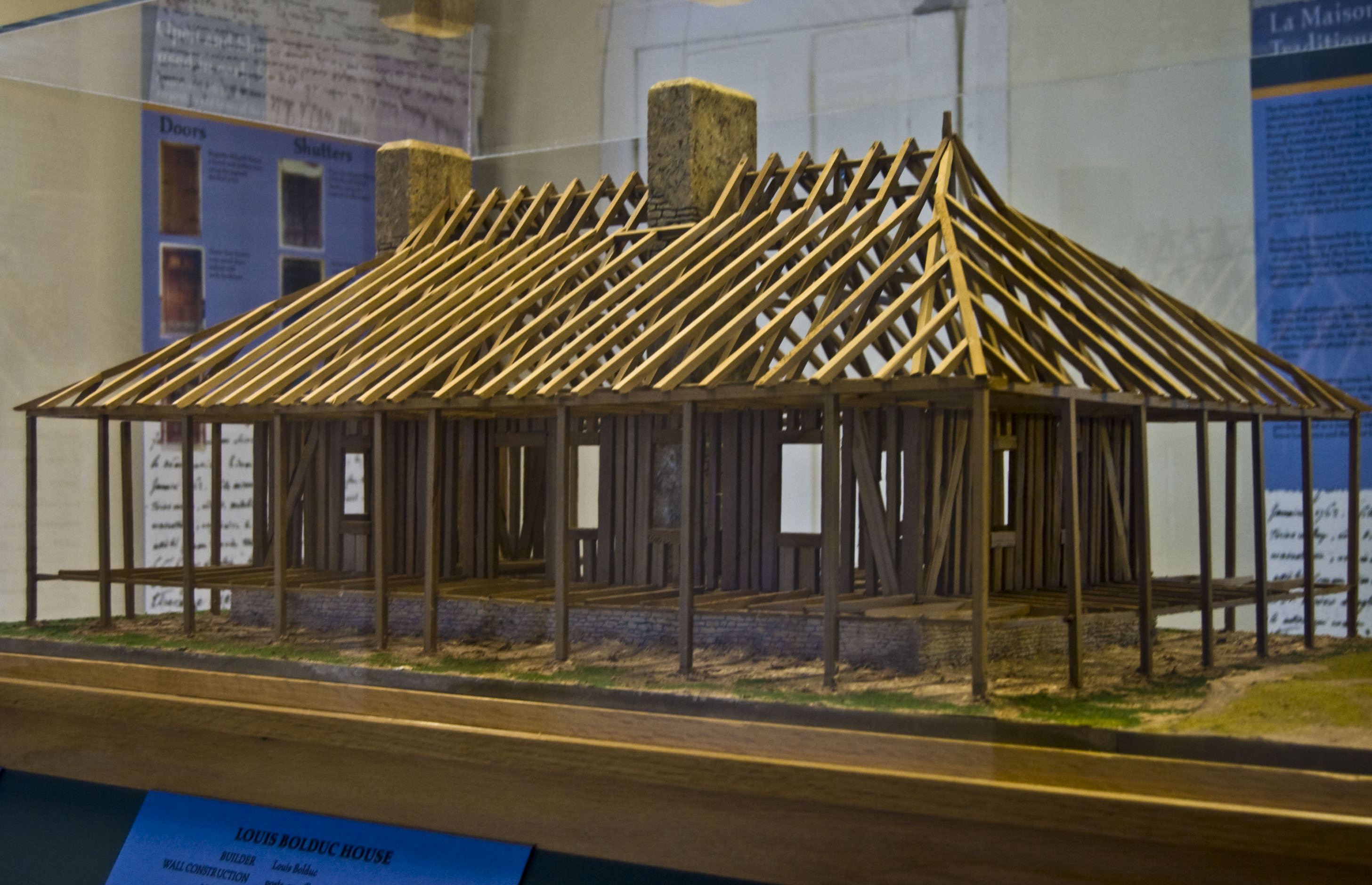 Poteaux-sur-solle (posts-on-sill) Construction. This model of the Bolduc House is in the Bauvais-Amoureux House in Ste. Geneviève, Missouri.